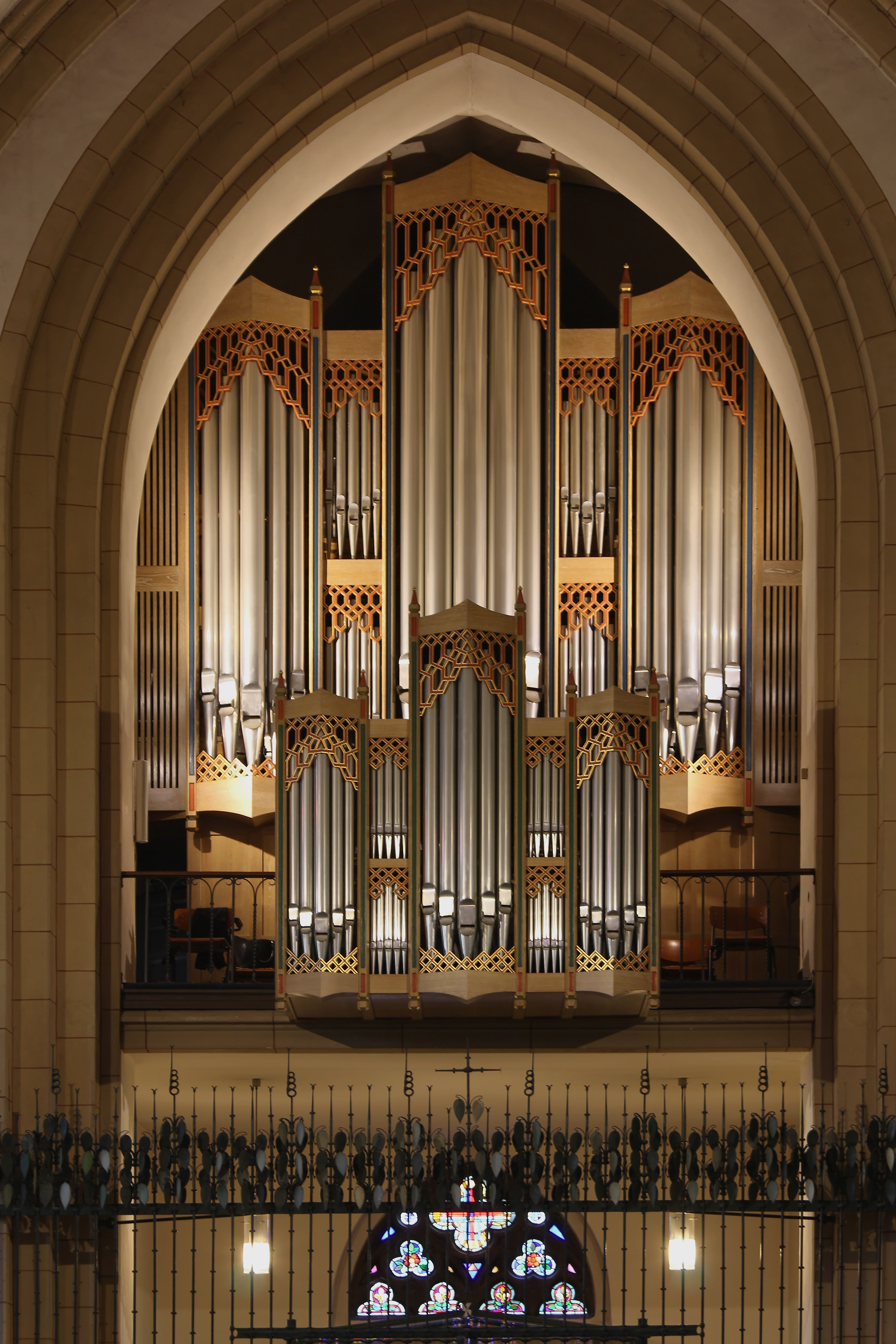 Interior of St. Sophienkirche in Hamburg-Barmbek, pipe organThis is a photograph of an architectural monument.